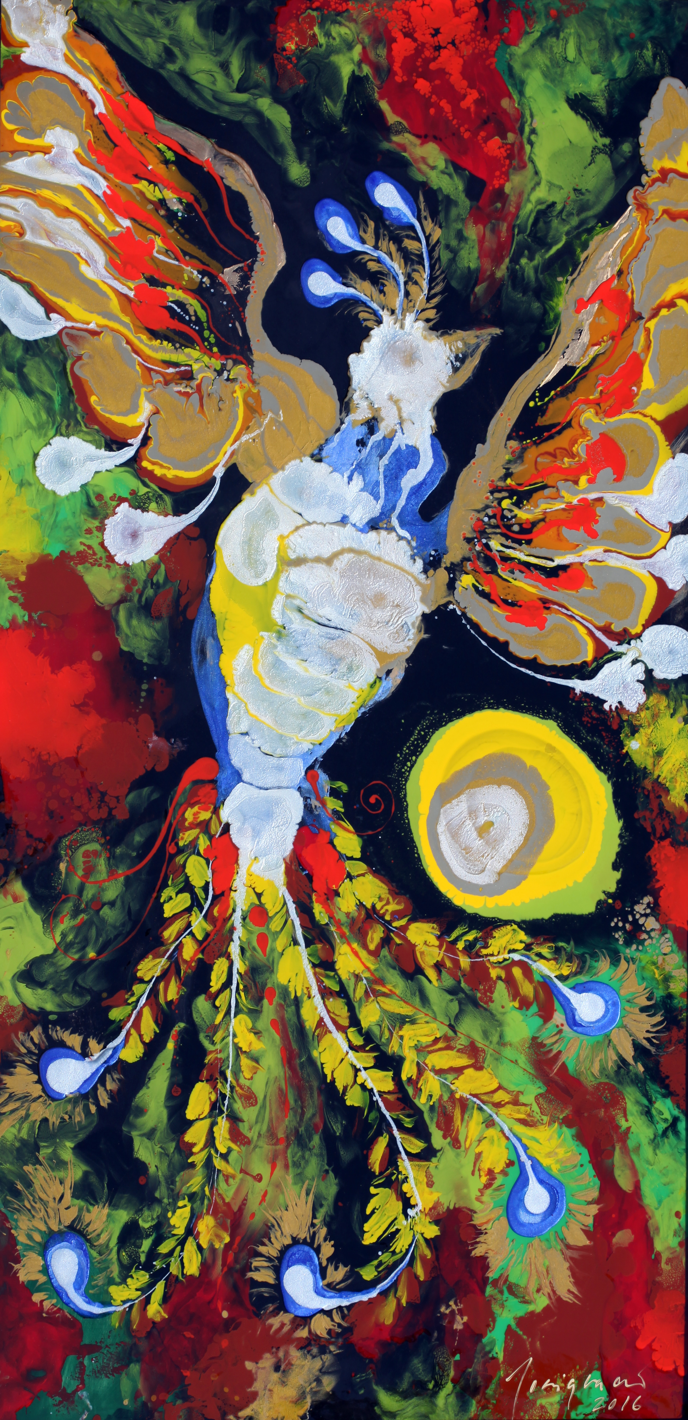 This original Josignacio's artwork was acquired by the governmental Cuban institution "Casa de las Artes y Tradiciones Chinas" to be on display to the general public in its permanent collection